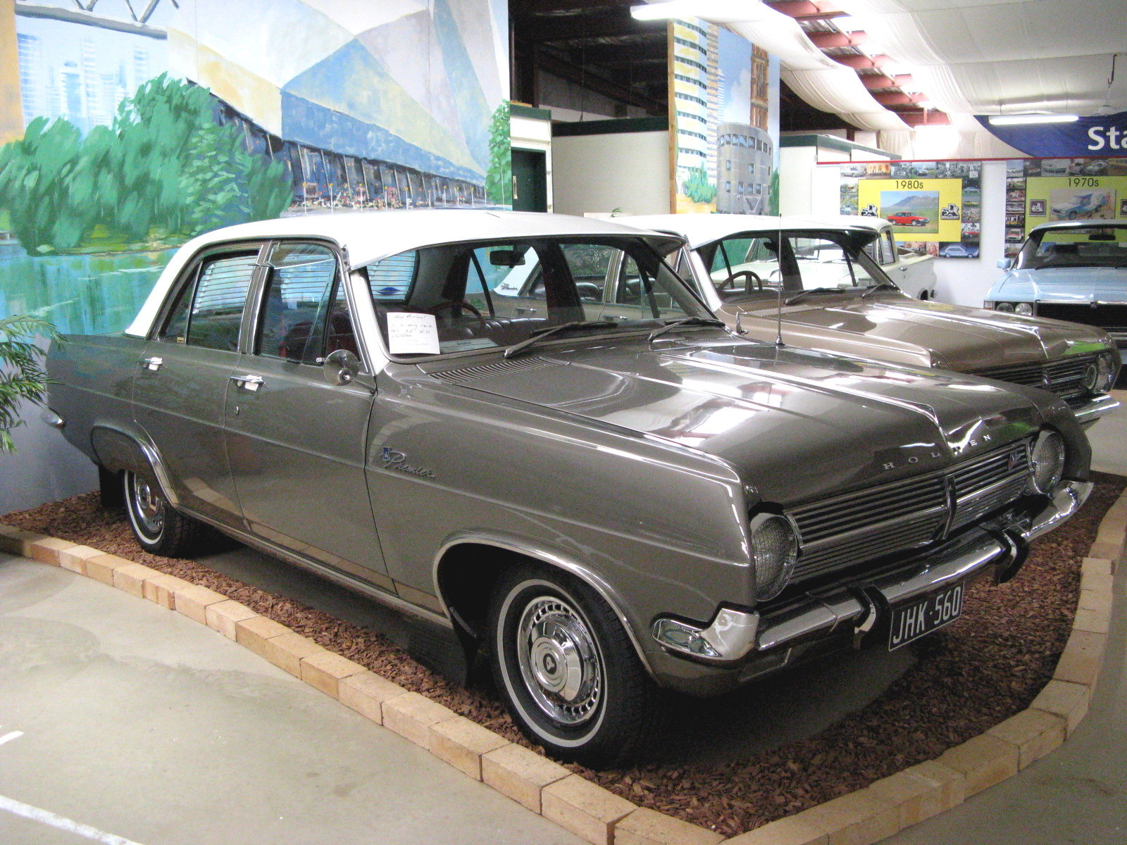 1965 Holden HD Premier X2 sedan, photographed at the National Holden Motor Museum, Echuca, Victoria, Australia.